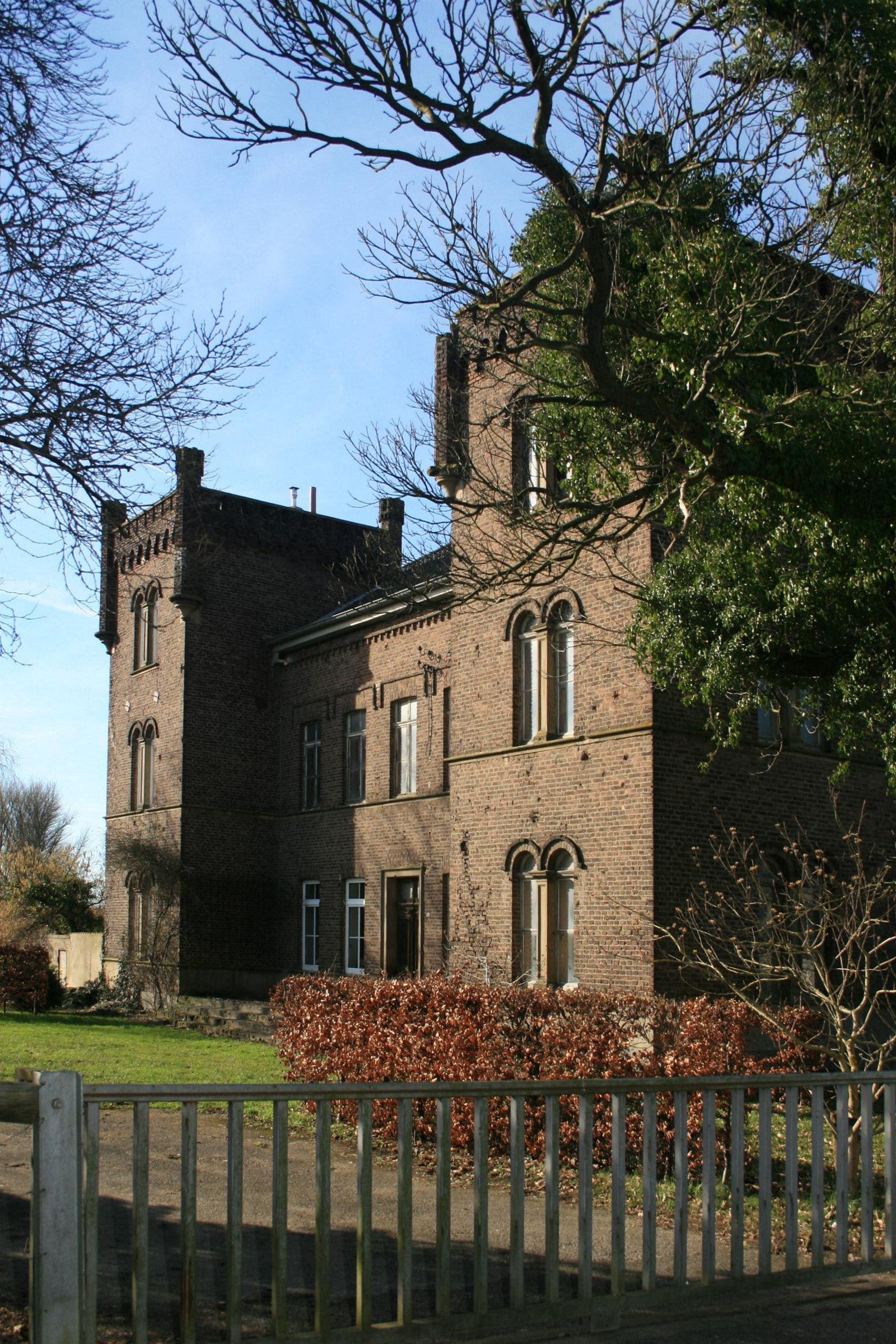 Cultural heritage monument No. 34 in Jülich